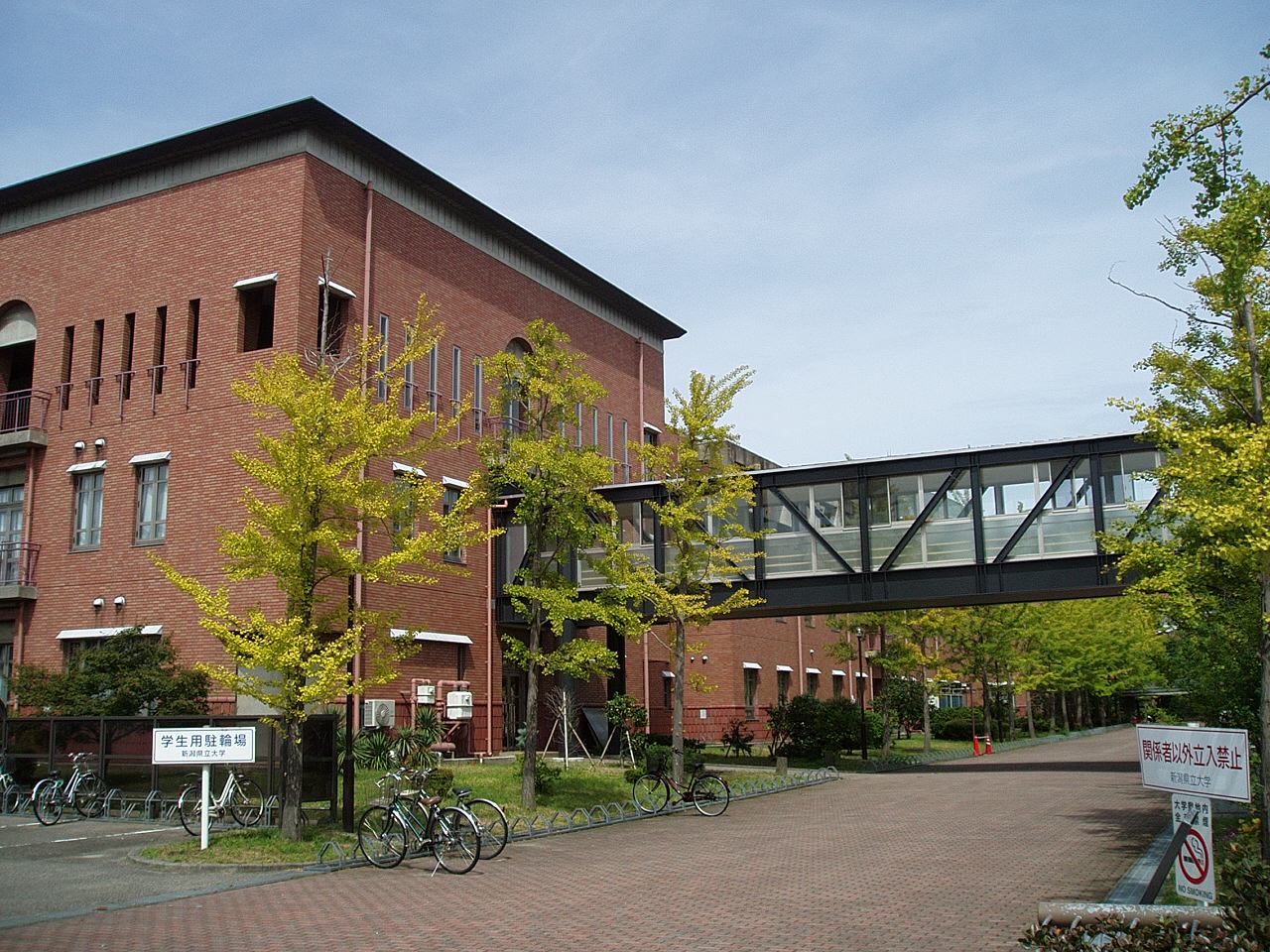 South Gate of the University of Niigata Prefecture, located in Higashi-ku, Niigata City, Niigata Prefecture, Japan.